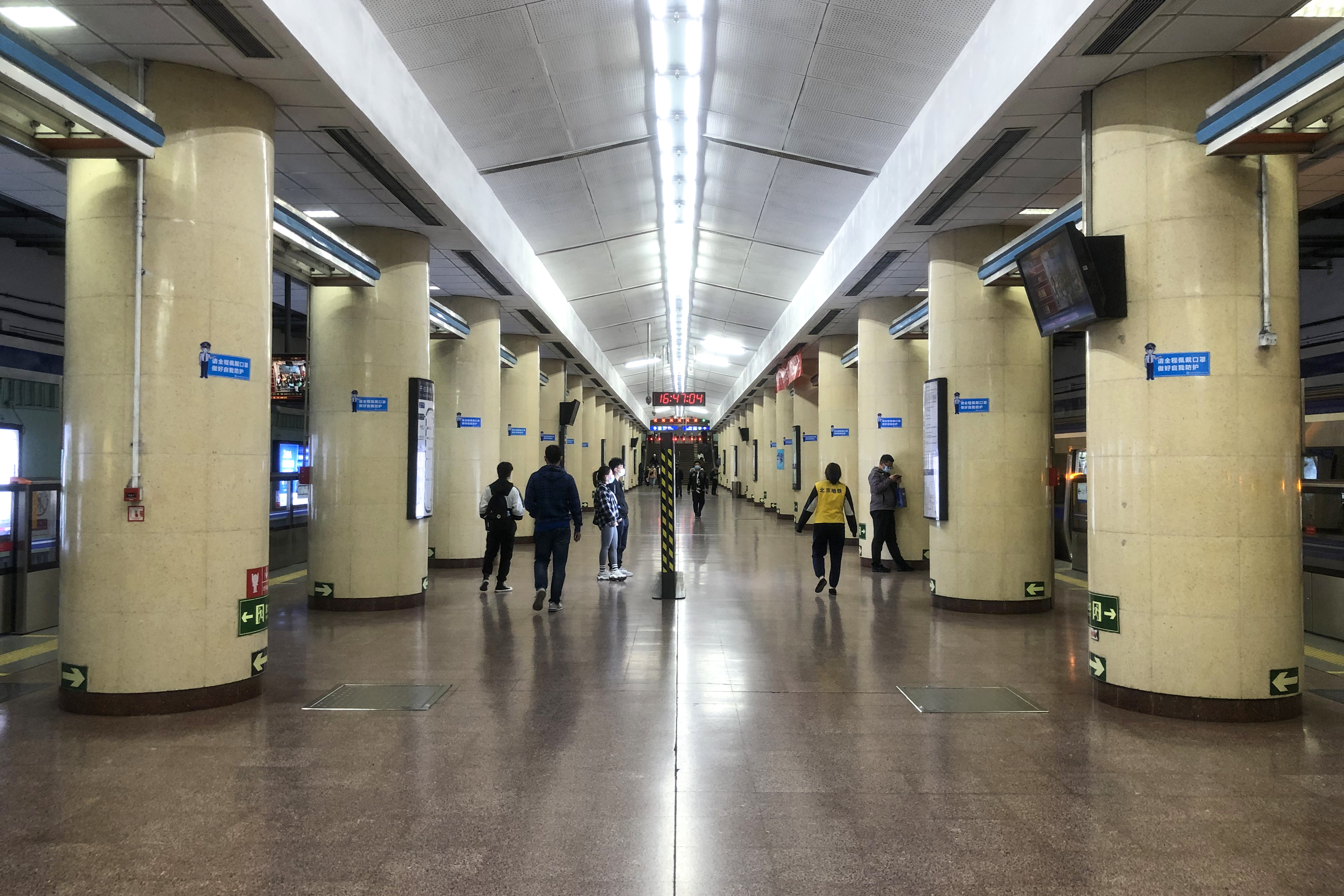 Then where's the interface for Line 19?